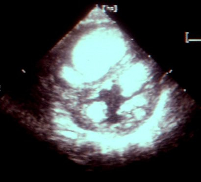 Echocardiography on a newborn child shows multiple rhabdomyomas in both ventricles